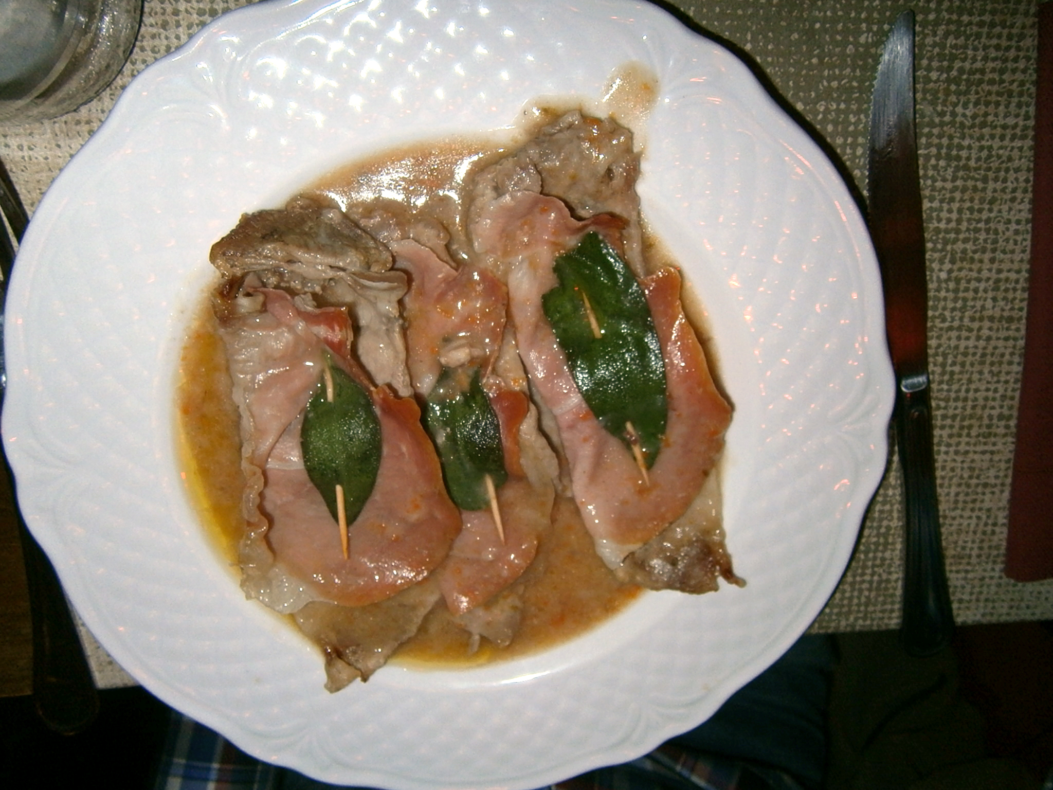 Saltimbocca alla Romana